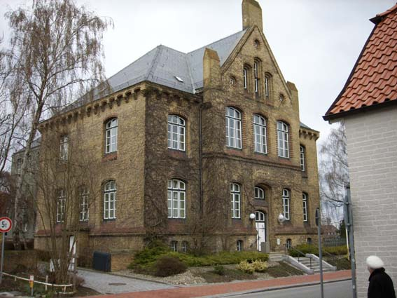 District Court in Kappeln, Germany